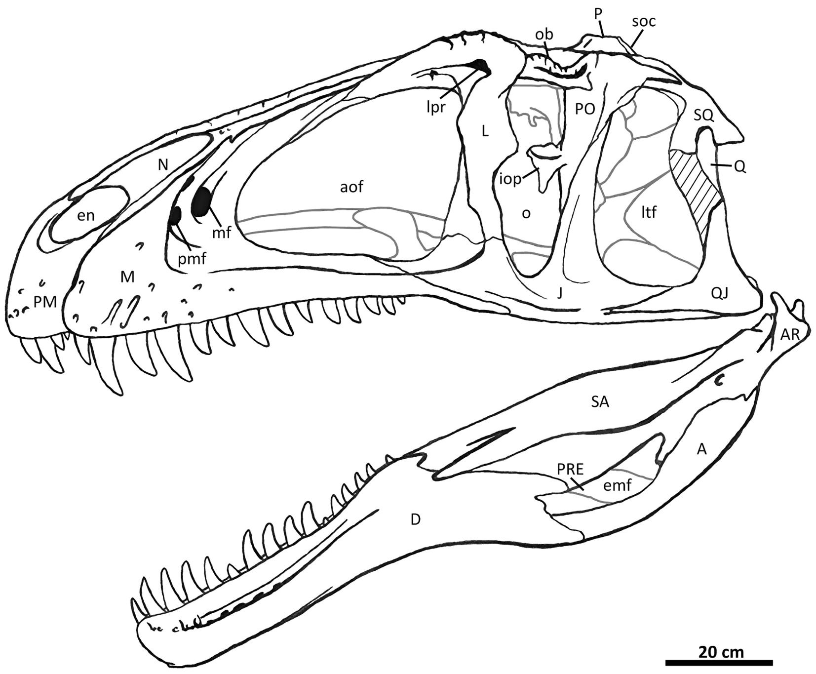 line drawing of the skull of Acrocanthosaurus atokensis (NCSM 14345) in left lateral view. Hatched lines represent missing bone. A, angular; aof, antorbital fenestra; AR, articular; D, dentary; emf, external mandibular fenestra; iop, intraorbital process of postorbital; J, jugal; L, lacrimal; lpr, lacrimal pneumatic recess; ltf, lateral temporal fenestra; M, maxilla; mf, maxillary fenestra; N, nasal; o, orbit; ob, orbital boss of postorbital; P, parietal; PM, premaxilla; pmf, promaxillary fenestra; PO, postorbital; PRE, prearticular; Q, quadrate; QJ, quadratojugal; SA, surangular; soc, supraoccipital; SQ, squamosal.